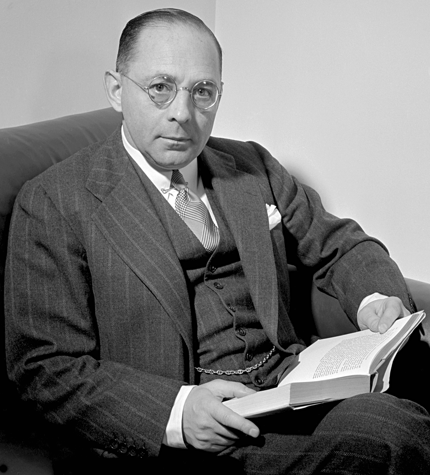 Sidney Weinberg, Chairman and CEO of Goldman Sachs